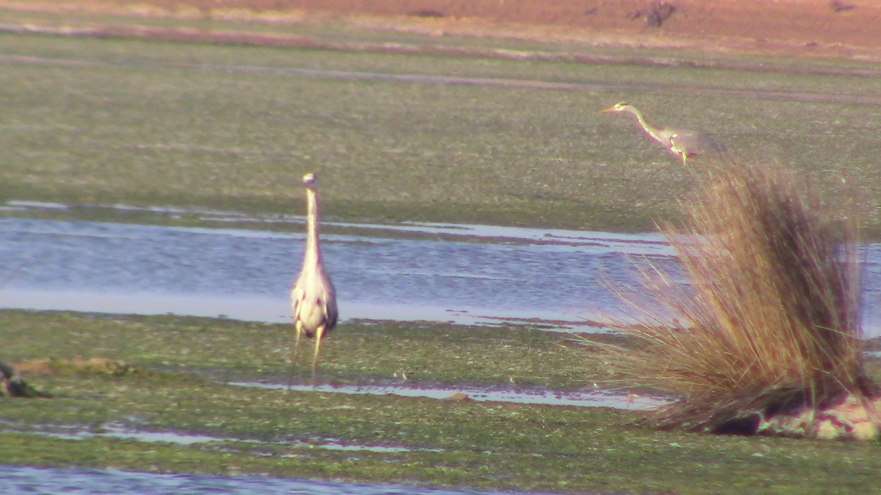 Sidi Moussa Lagoon Nature Preserve - View